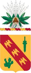 From the US Army TIOH